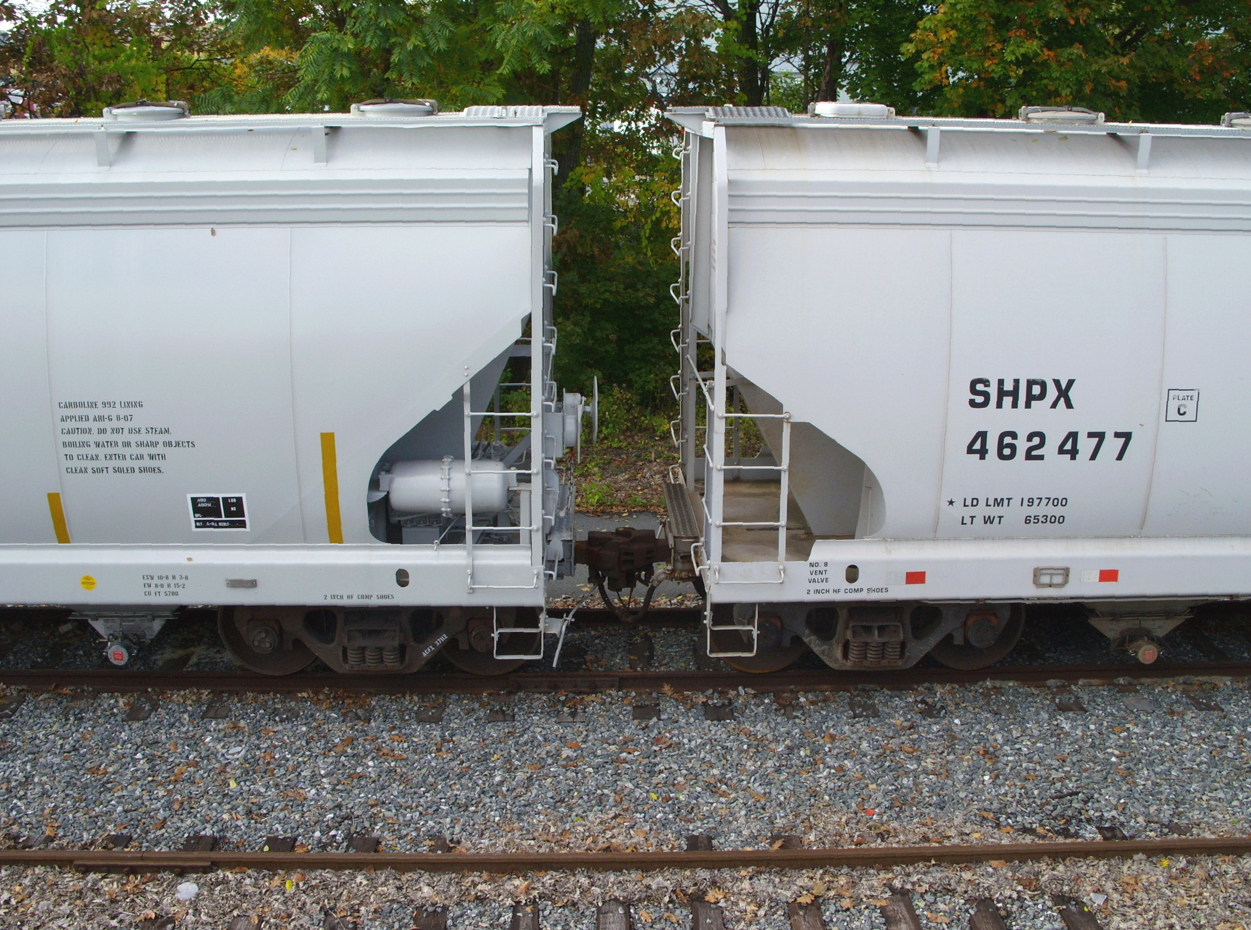 Train - connection, Blackstone River Bikeway in Worcester, Massachusetts, US.